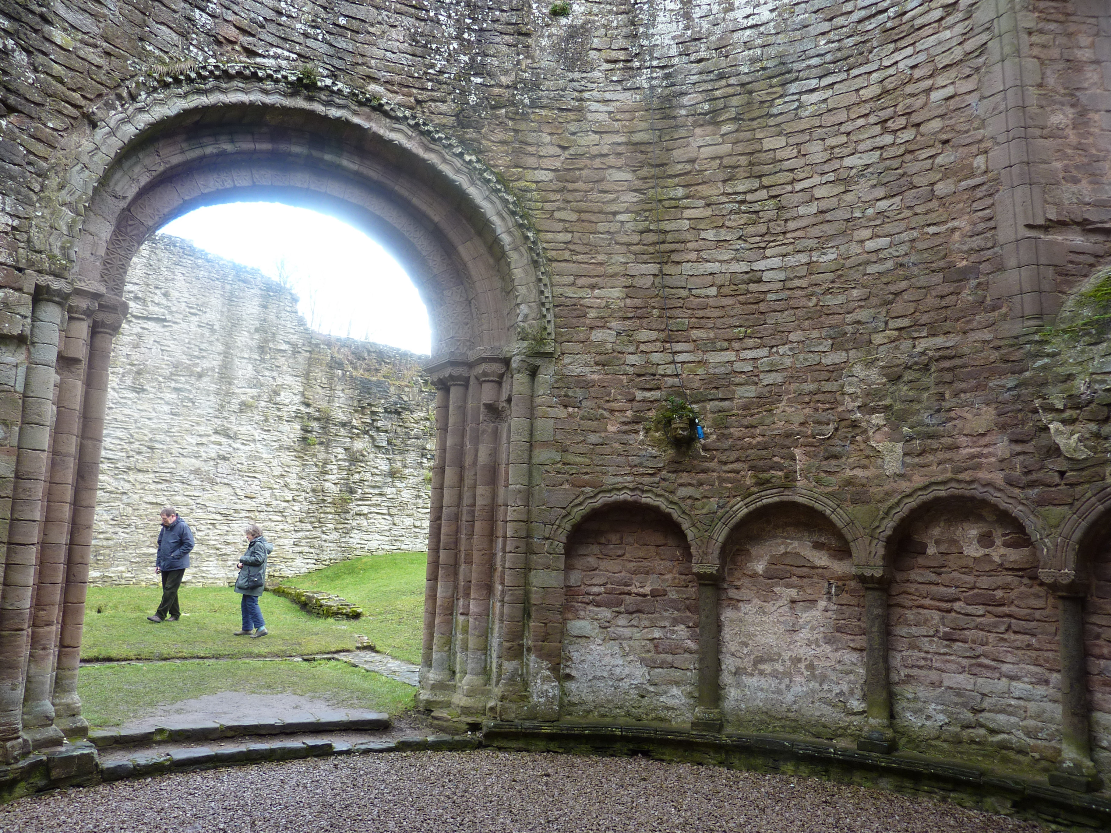 Ludlow Castle, the interior of the chapel